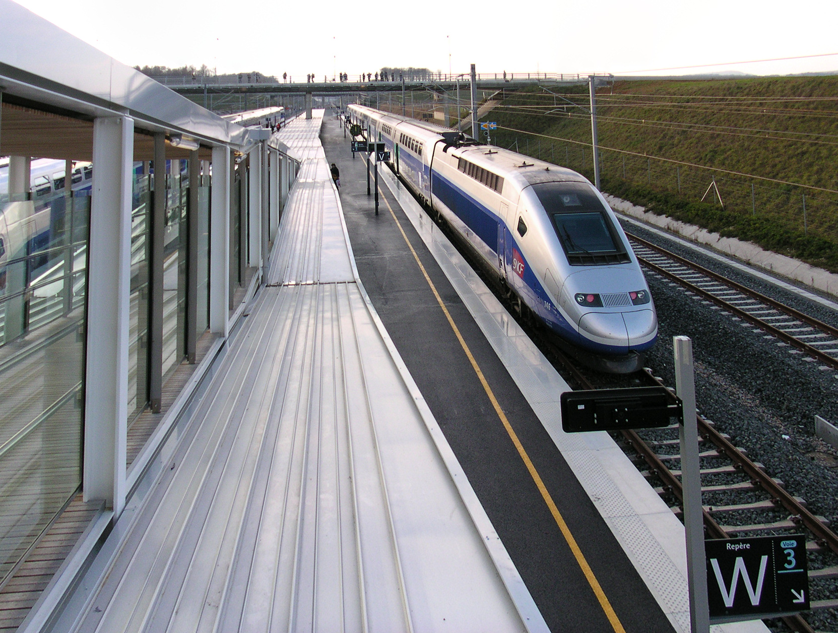 TGV Duplex Dasye number 746 train parked at the Belfort - Montbéliard TGV railway station during station's inaugural.